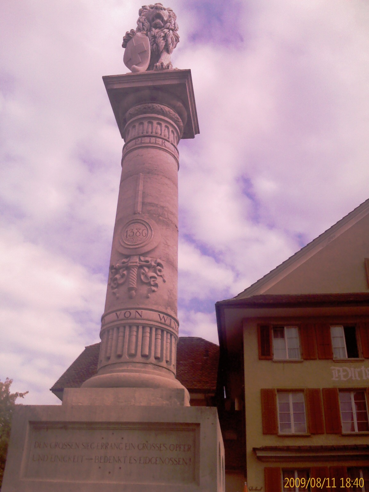 Monument for the Battle of Sempach, canton of Luzern, SwitzerlandEsperanto: Monumento por la Batalo de Sempach, Kantono Lucerno, Svislando